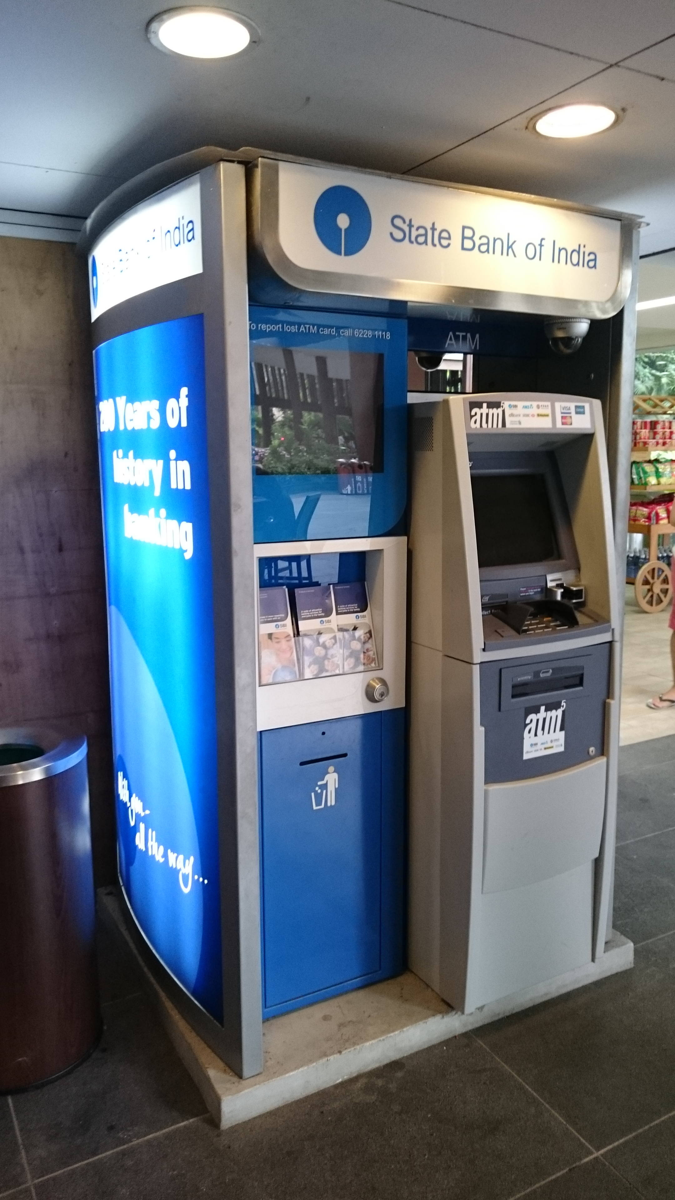 State bank of india ATM at the singapore zoo.